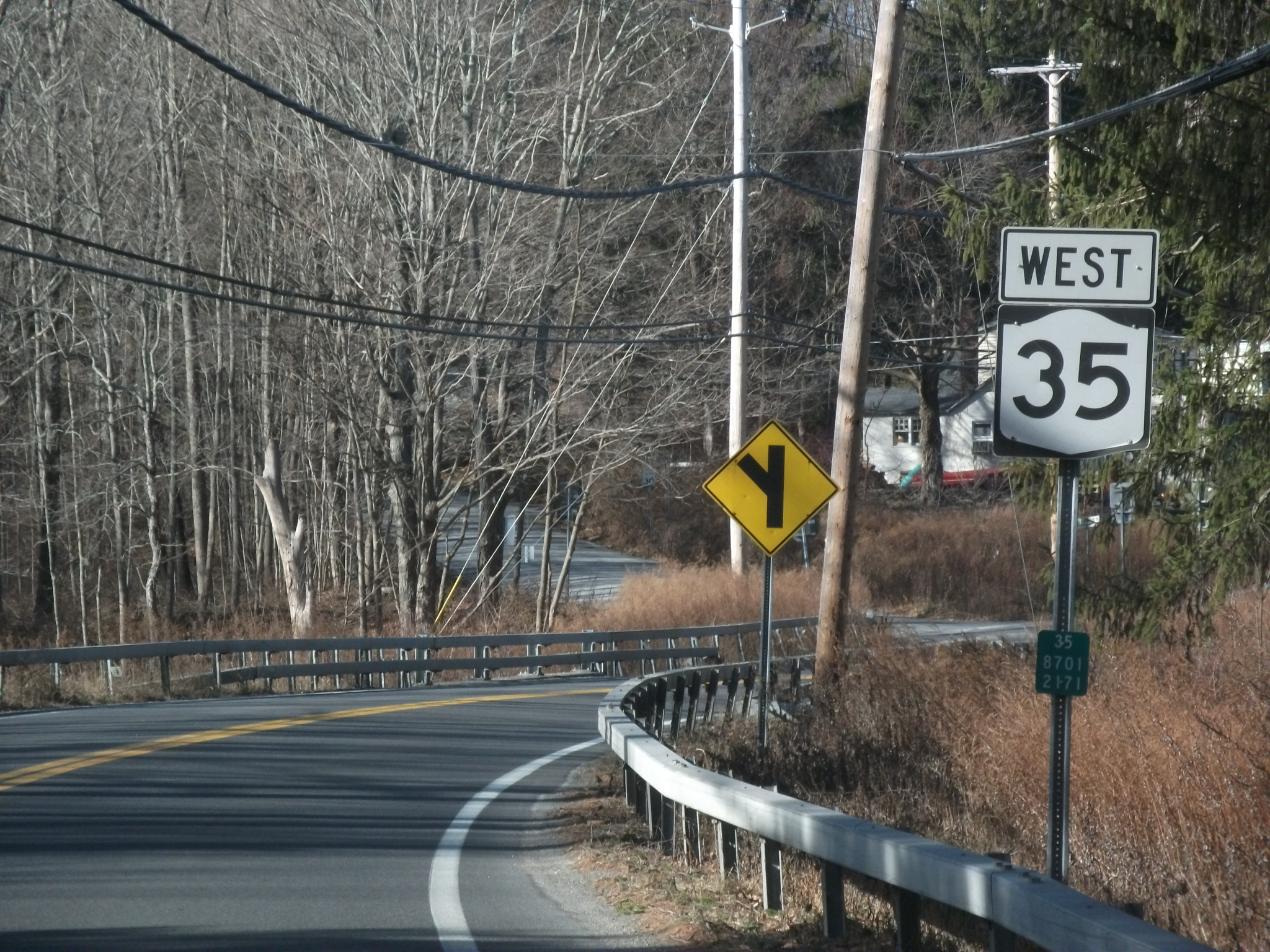 New York State Route 35 westbound at milepost 17.1 in the town of Bedford, New York.